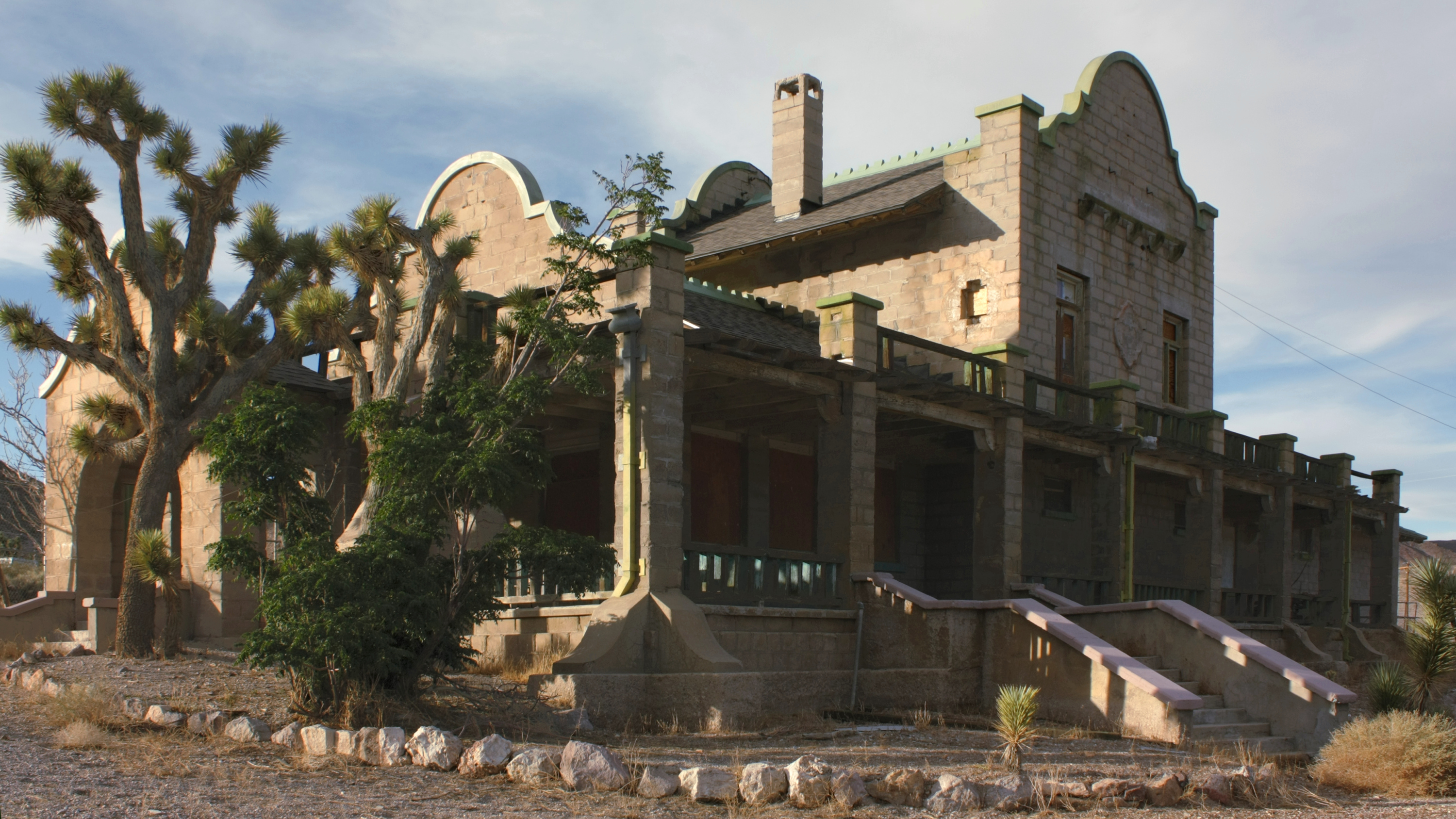 Train station, Rhyolite, Nevada, United States, 2011